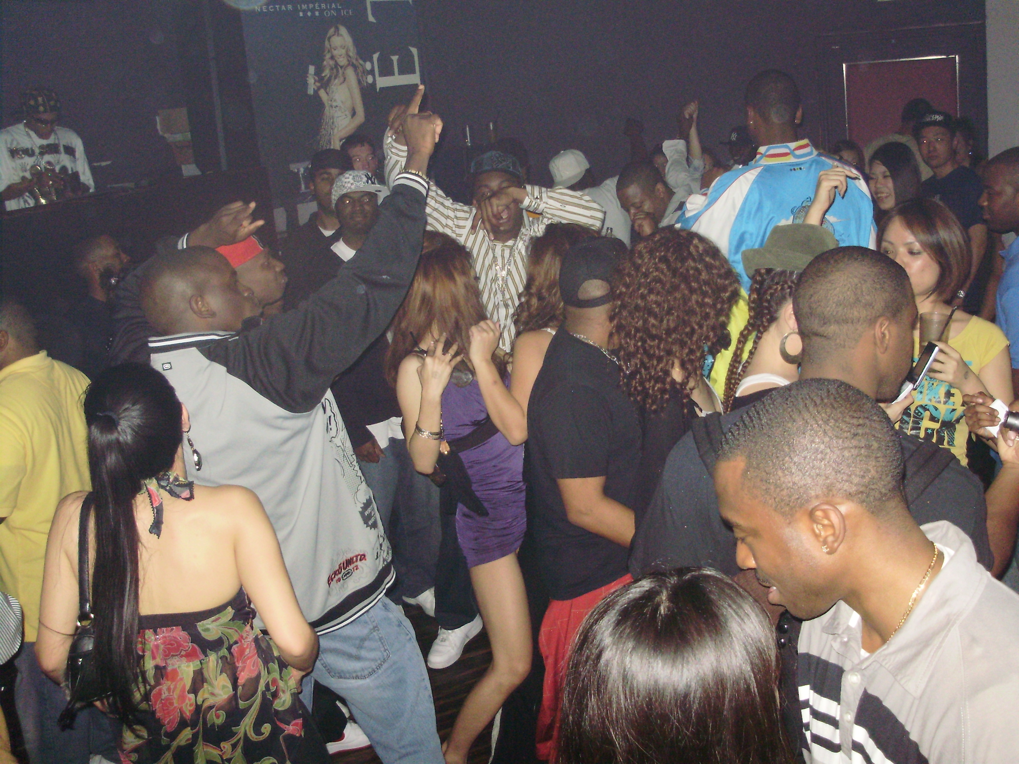 Club in Okinawa, Japan.